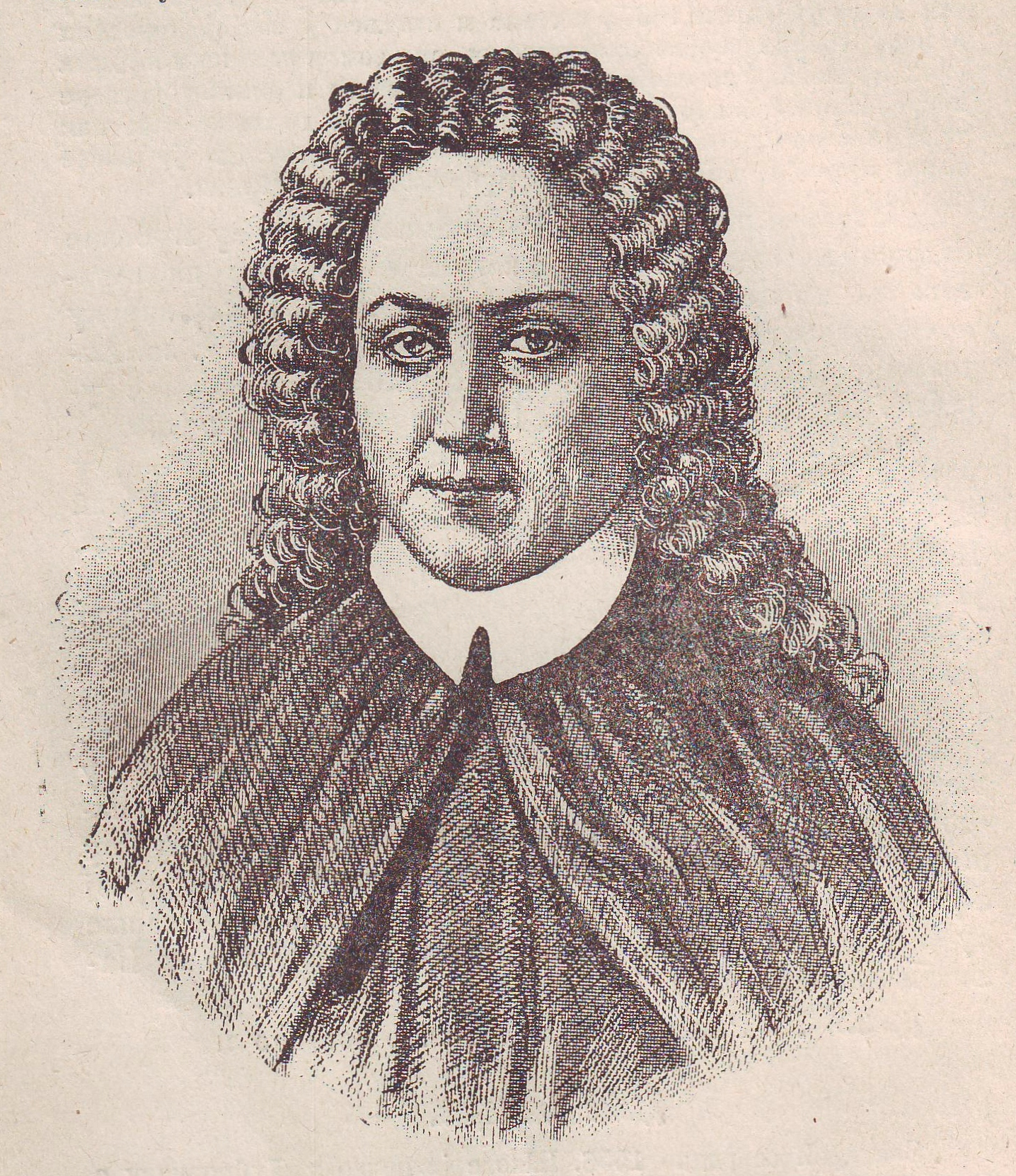 Dominko (Dinko) Zlatarić (1558-1613), Renaissance poet and translator from Dubrovnik. Taken from Istorija srpske književnosti (1906) by Jovan Grčić. Srpski (latinica): Dominko (Dinko) Zlatarić (1558-1613), renesansni pesnik i prevodilac iz Dubrovnika. Preuzeto iz Istorije srpske književnosti (1906) Jovana Grčića.